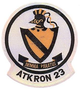 US Navy Attack squadron 23 Unit Insignia